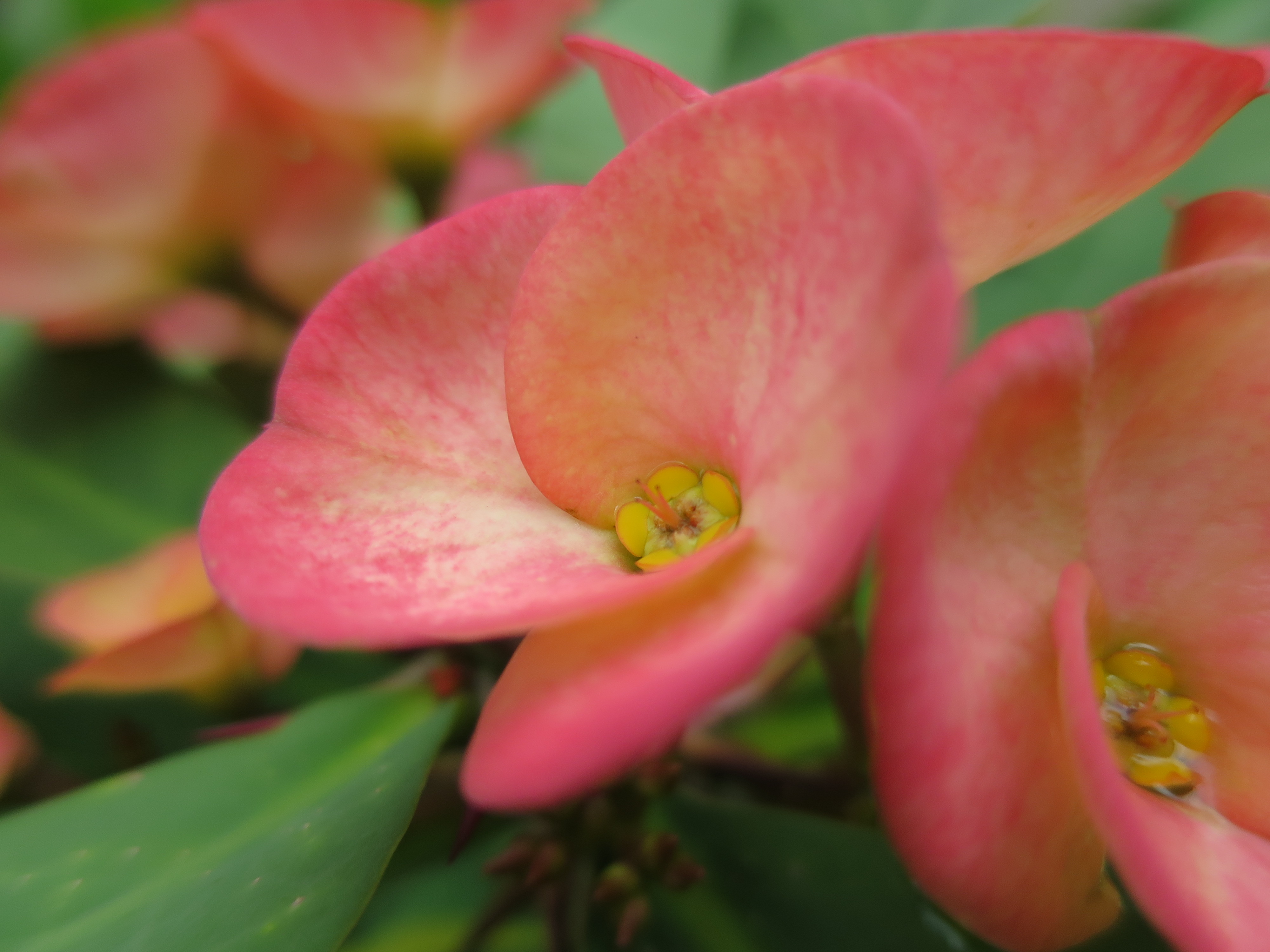 Many beautiful flowers are seen in local gardens in Kirakira; this is one such example.